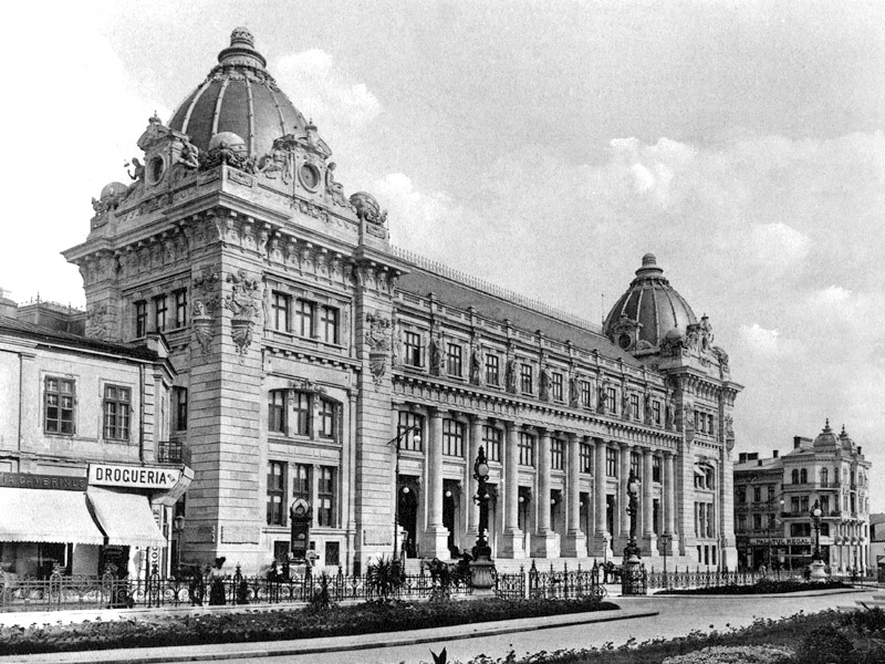 photograph of Bucharest Palace of the Postal System